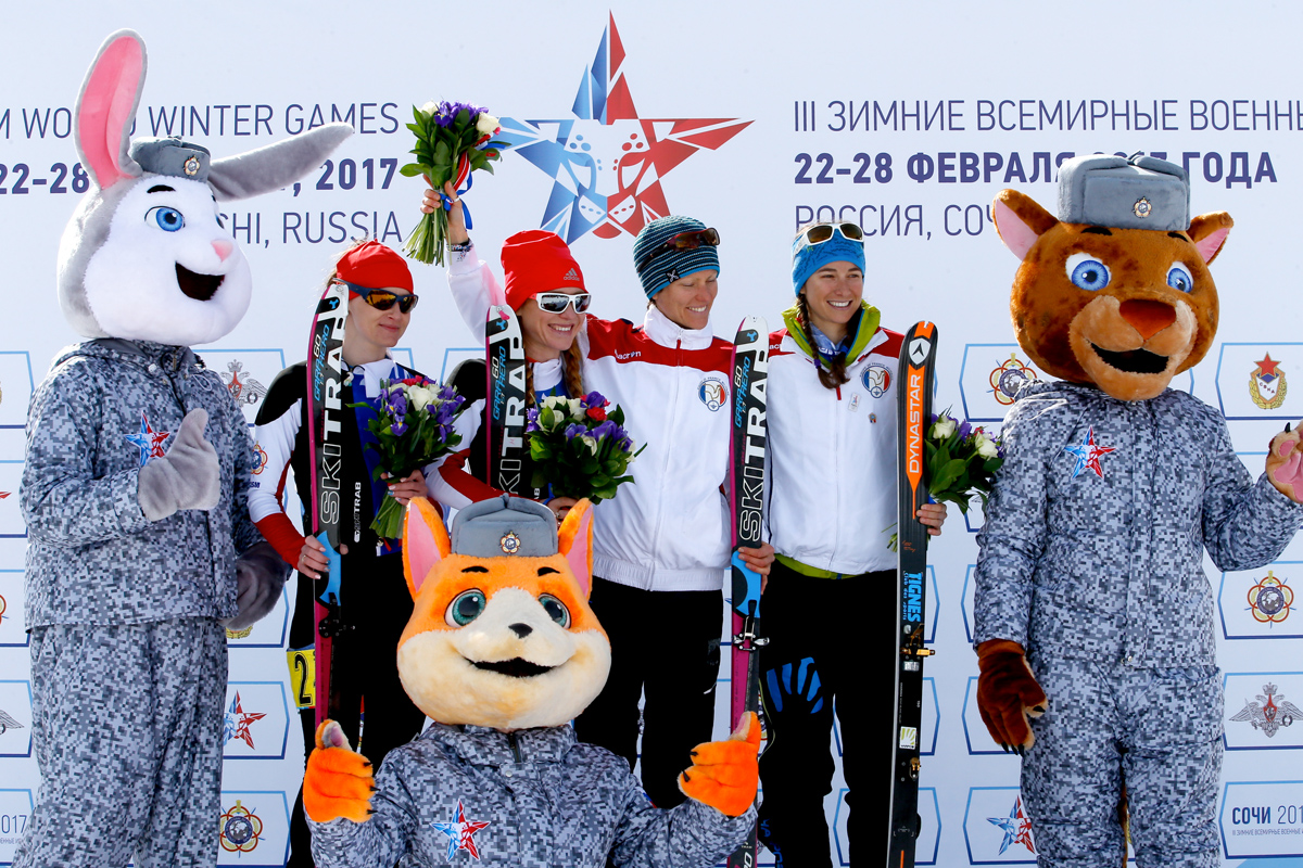 МИТЯЕВА Екатерина (Россия), БЕРЕЗАНЬ Светлана (Россия), РУ Летиция (Франция), МИЛЛЁЗ Адэль (Франция). Ски-альпинизм, командная гонка. III Зимние Всемирные военные игры. Горнолыжный центр «Роза Хутор», Сочи, Россия. 27 февраля 2017. Фото Alexander Safonov/CISM2017MITIAEVA Ekaterina (Russia), BEREZAN Svetlana (Russia), ROUX Laëtitia (France), MILLOZ Adèle (France). Ski Mountaineering, Team Race. 3rd CISM World Winter Games. Rosa Khutor Alpine Skiing Centre, Sochi, Russian Federation. February 27, 2017. Photo by Alexander Safonov/CISM2017